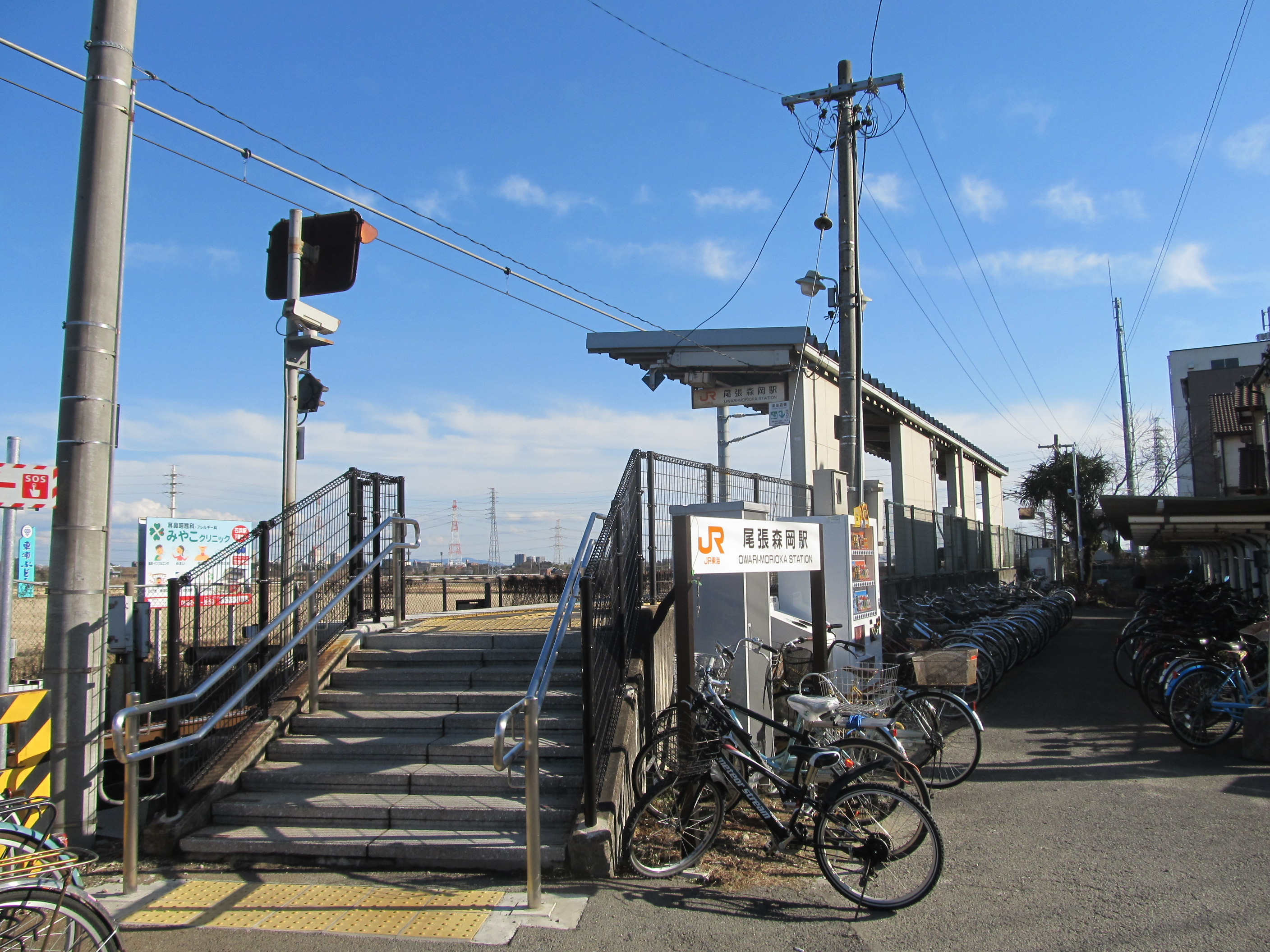 Central Japan Railway Taketoyo Line Owari-Morioka Station Gate